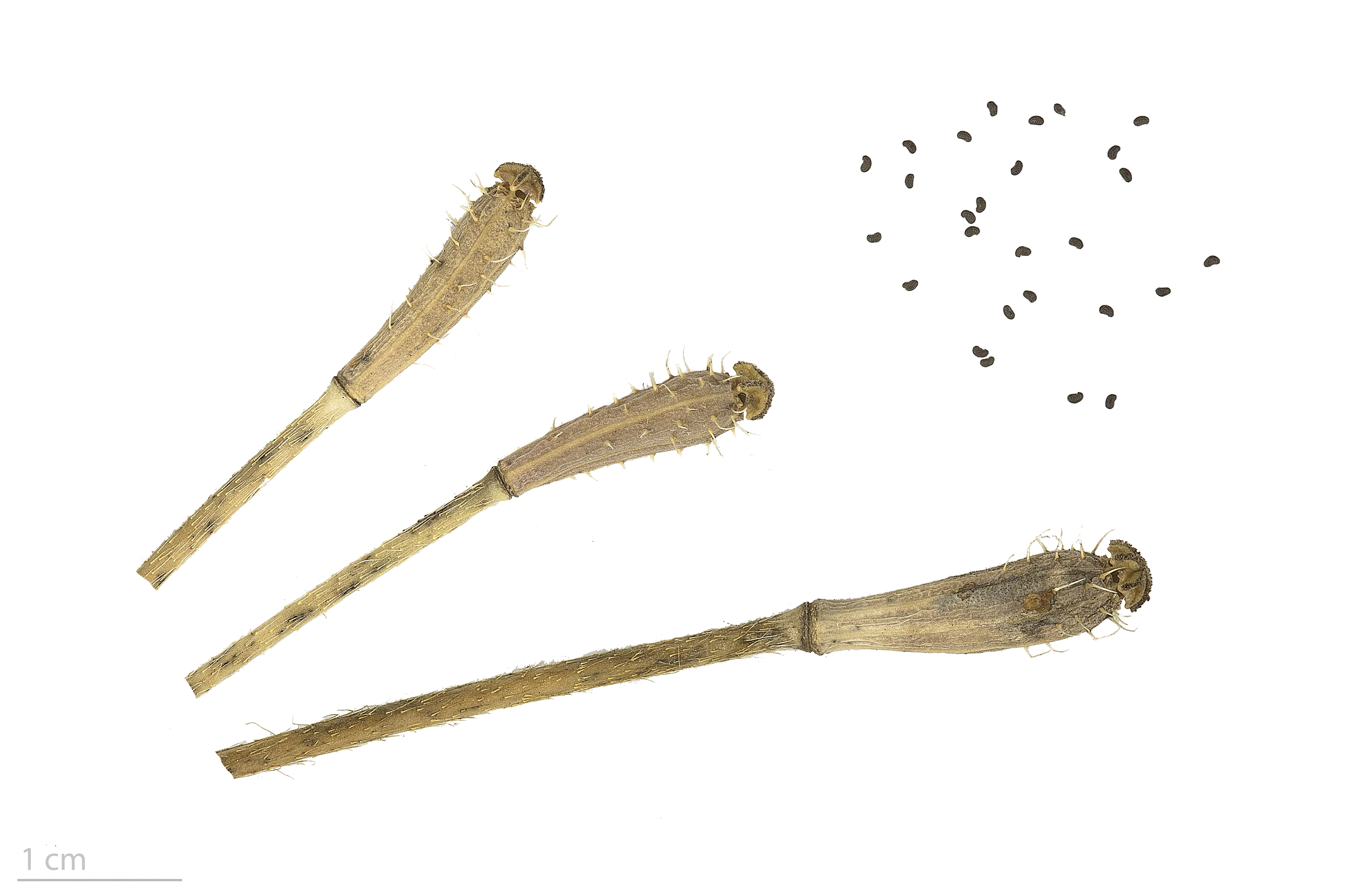 Papaver argemone, pale poppy, seeds